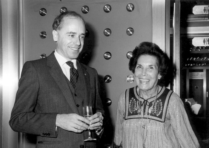 Dr. Hans Koechler, left, with Hortensia Bussi de Allende at a reception given by the President of the International Progress Organization at the Sheraton Hotel in Brussels (28 September 1984)